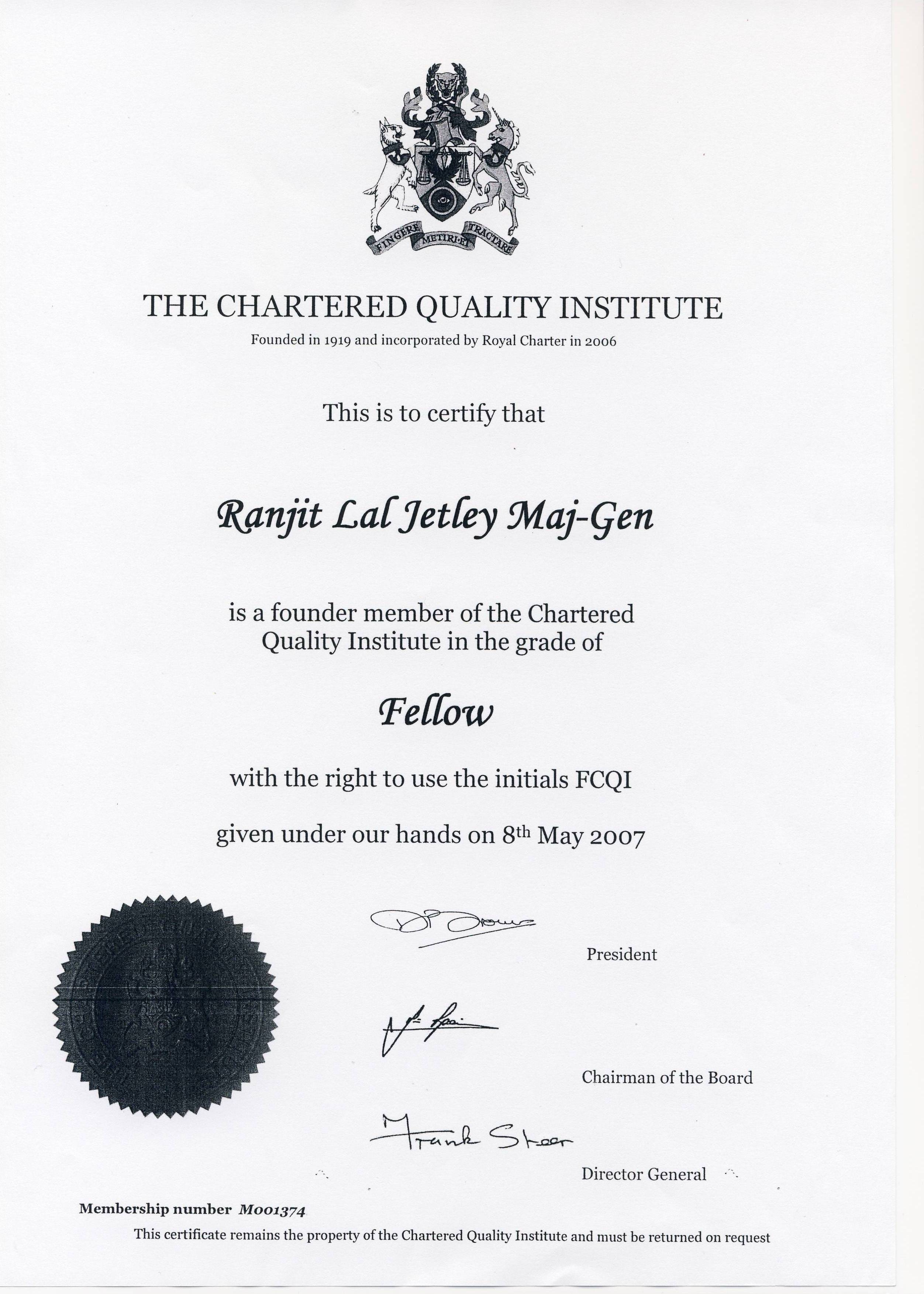 Major General RL Jetley (Retired)